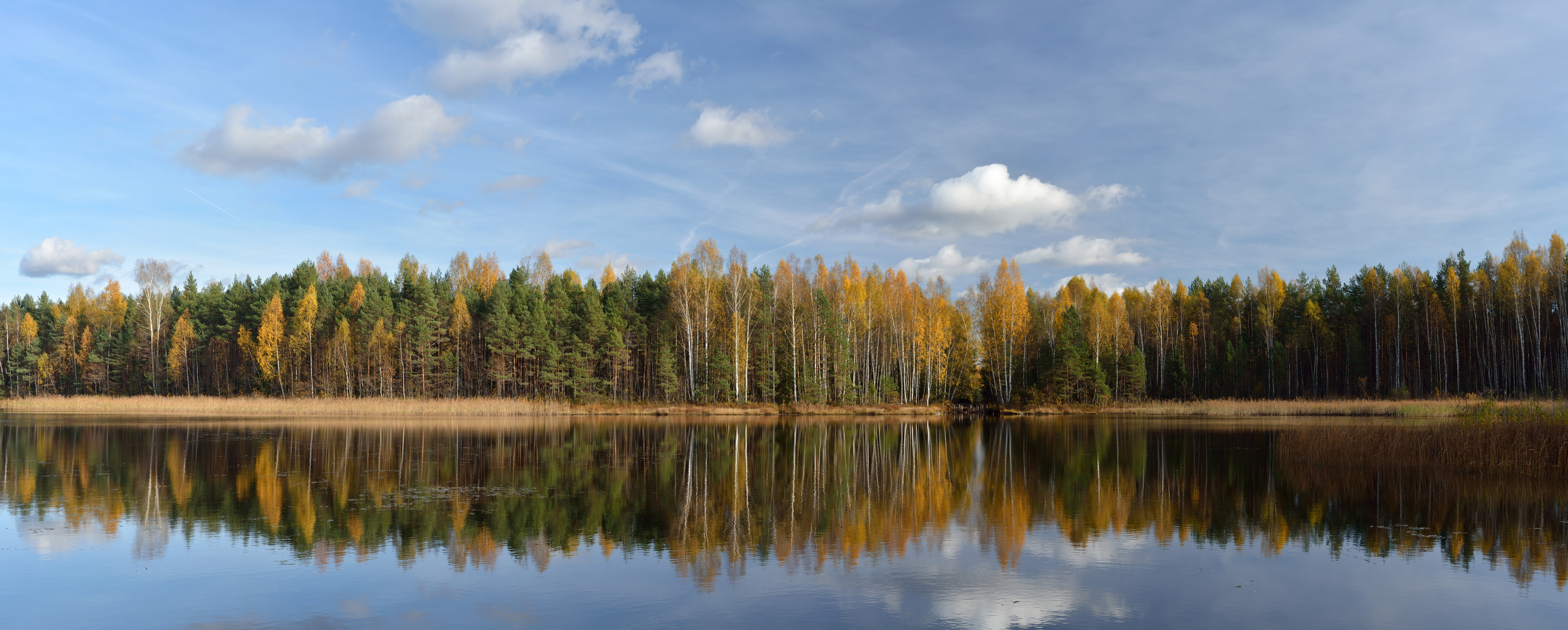 Lake Niinsaare, Kurtna Landscape Reserve. Surface area 7.0 ha, deepness as far as 4 m.